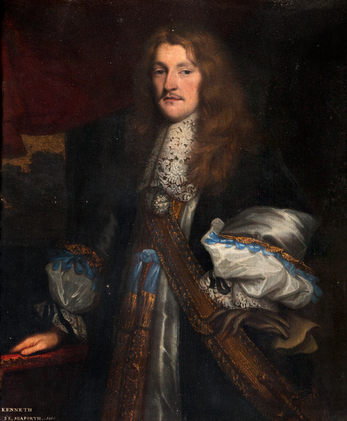 Kenneth Mackenzie, 3rd Earl of Seaforth (1635–1678), oil on canvas